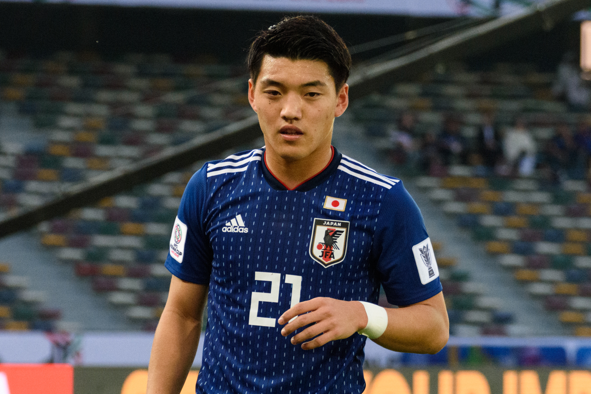 Ritsu Doan at the Asian Cup 2019